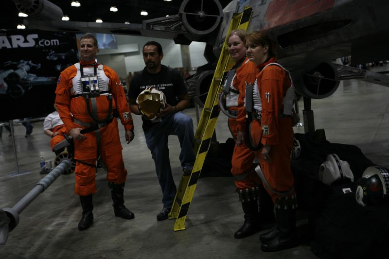 Guarding the X-wing (Star Wars Celebration IV). Photo by Jenny Elwick. Read more at the Official Celebration IV blog.